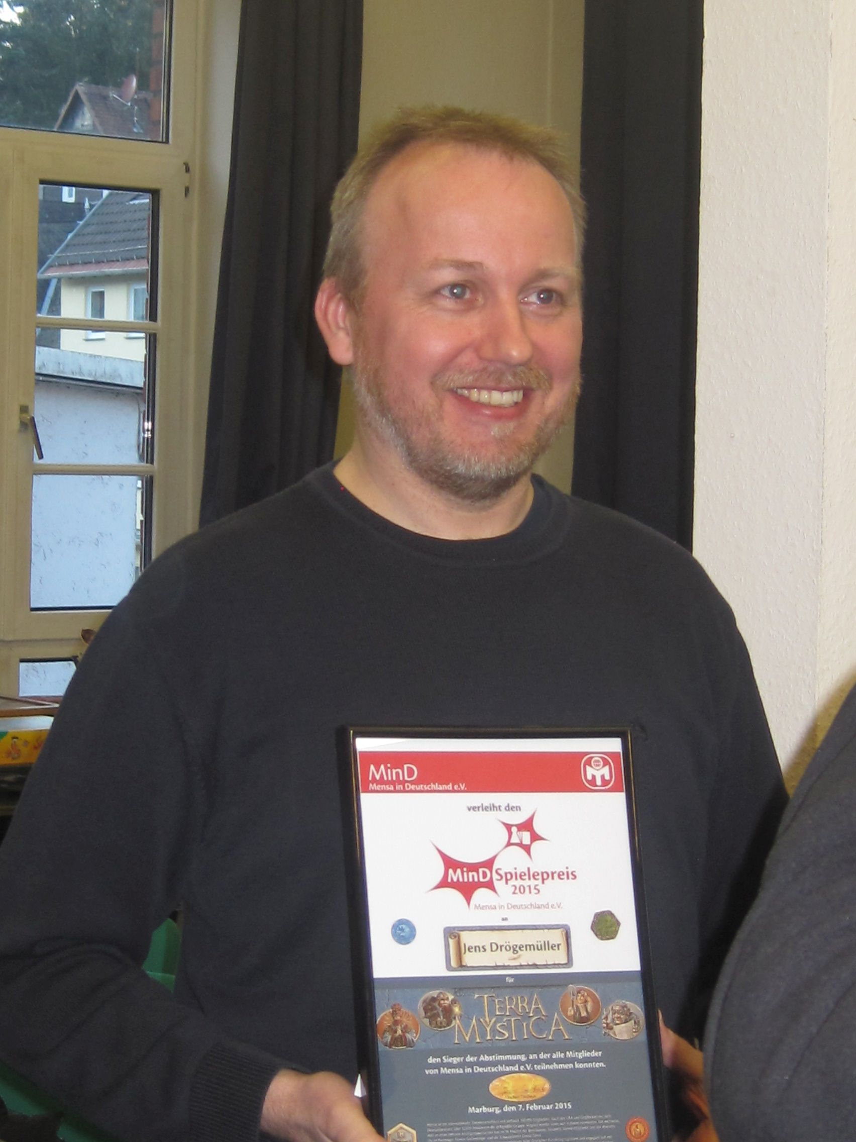 Price crowned board games author Jens Drogemüller, Mind Board Games Award 2015 for Terra Mystica.